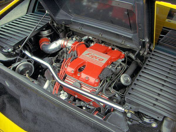 Modified 1987 Pontiac Fiero 2.8L V6 engine, photo by owner of car (Wikipedia user Yellowstone)